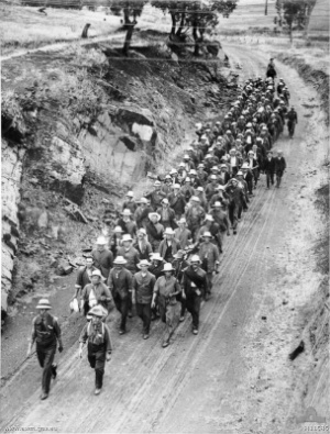 Kangaroo March near Wallendbeen, New South Wales which started in December 1915 at Wagga Wagga, New South Wales.